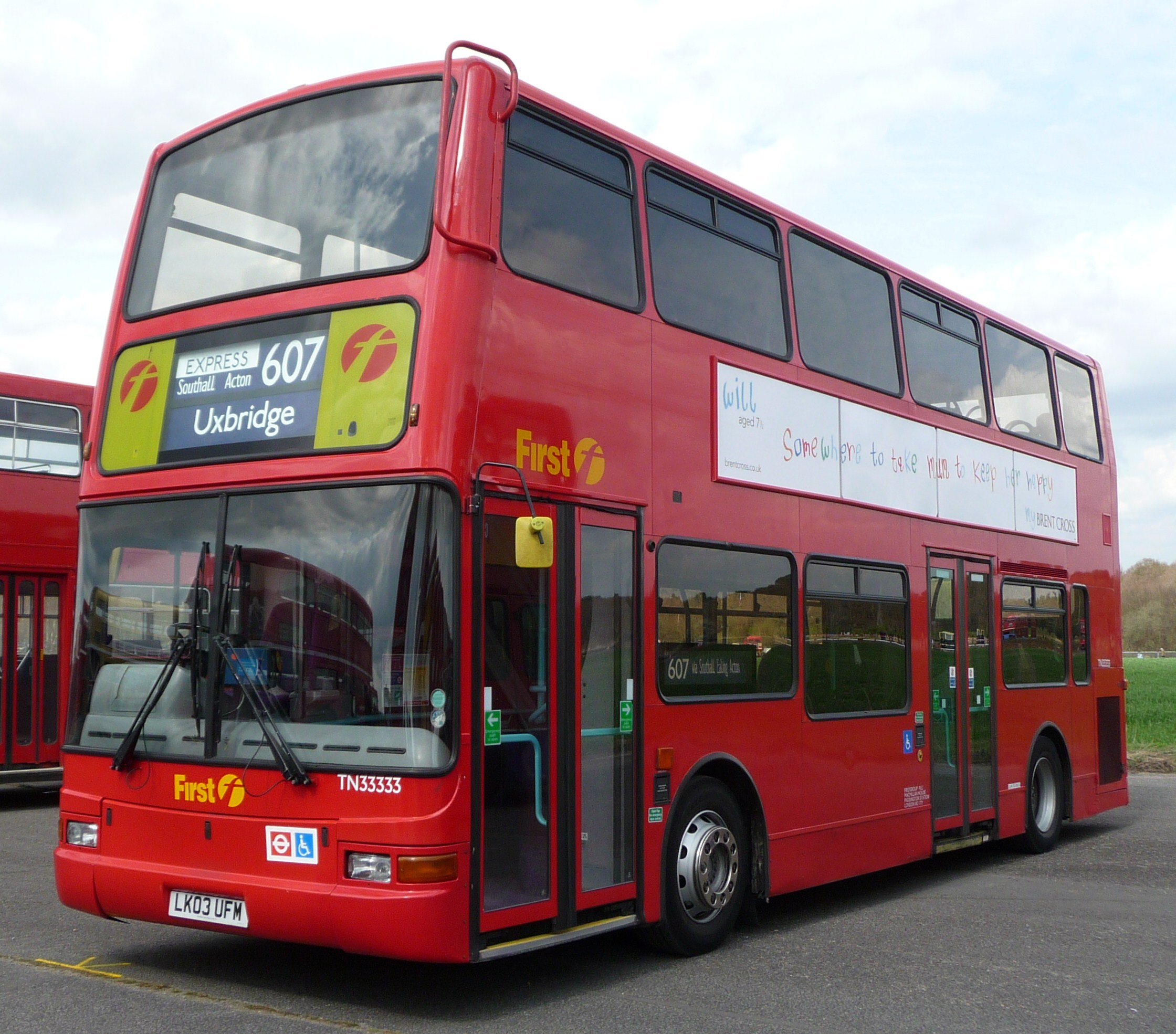 First London's TN33333 (LK03 UFM), a Dennis Trident/Plaxton President, at the 2009 Cobham bus rally at Wisley Airfield.